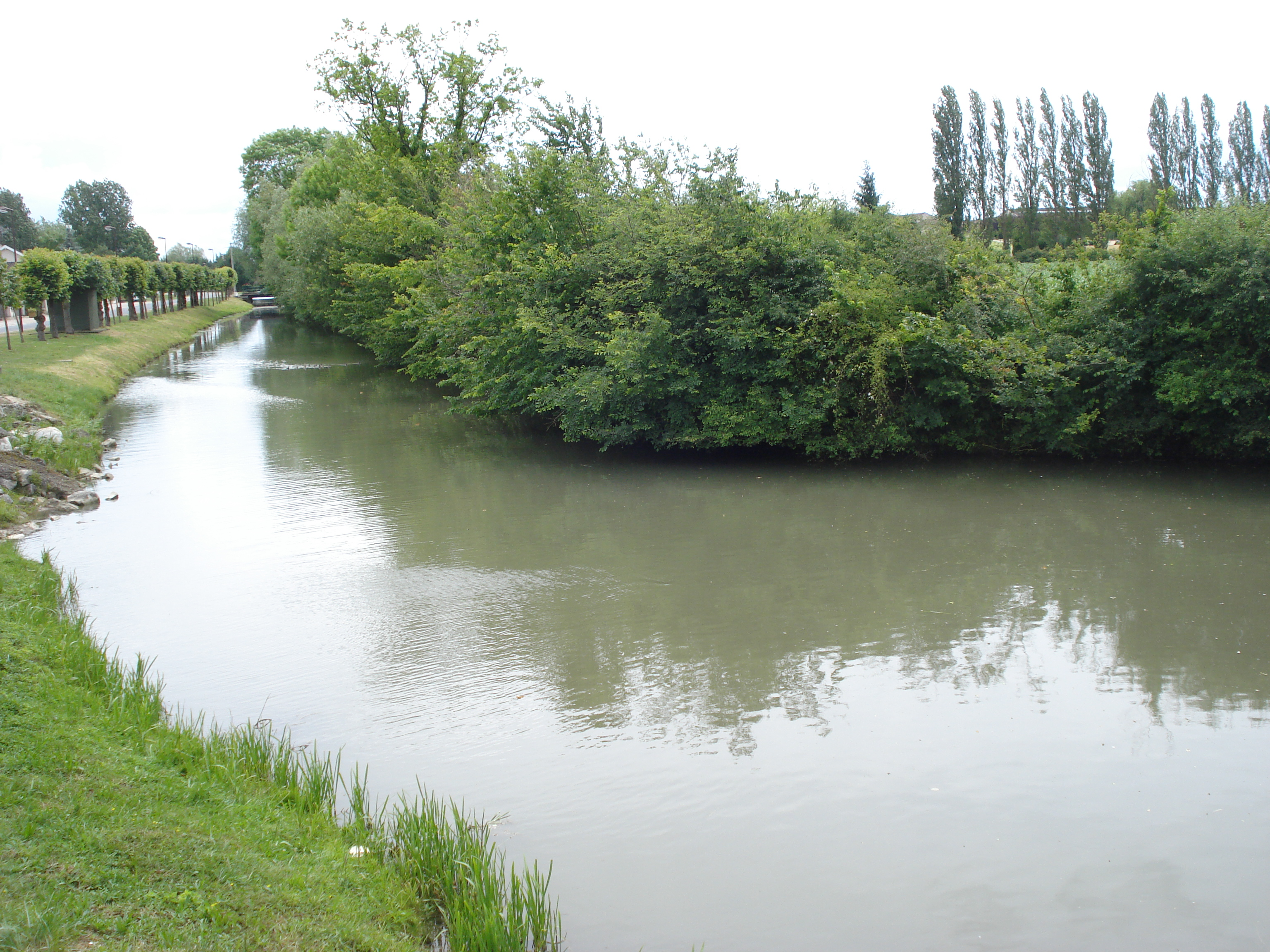 L'Isson à Saint-Rémy-en-Bouzemont